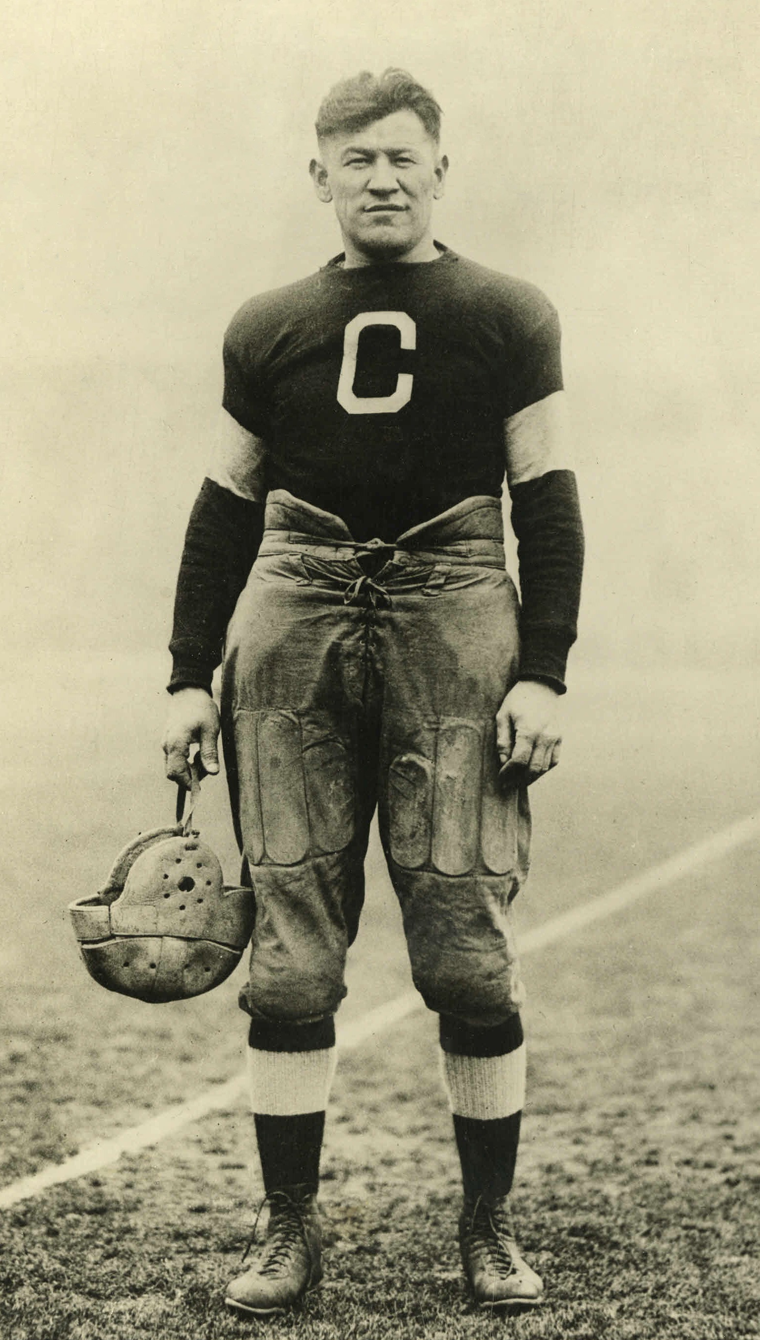 Photograph of Jim Thorpe while playing for the Canton Bulldogs